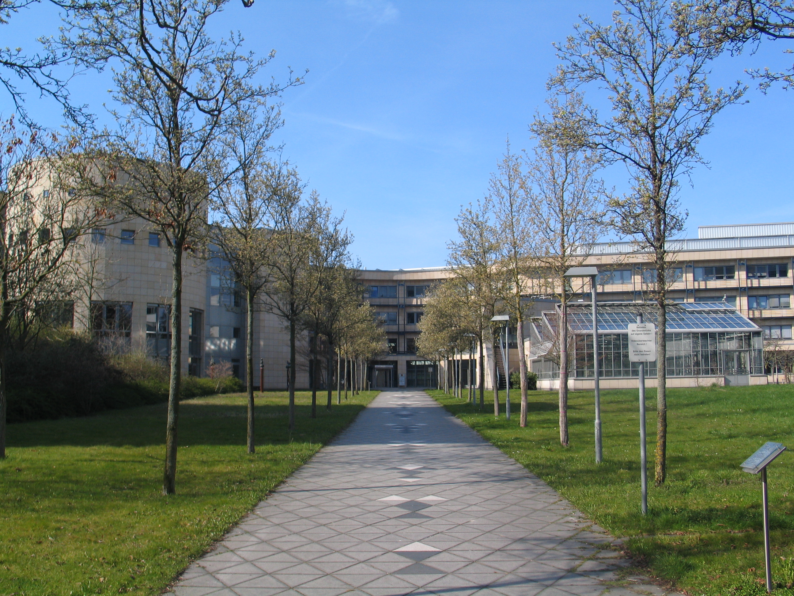 Max-Rubner Institute Karlsruhe